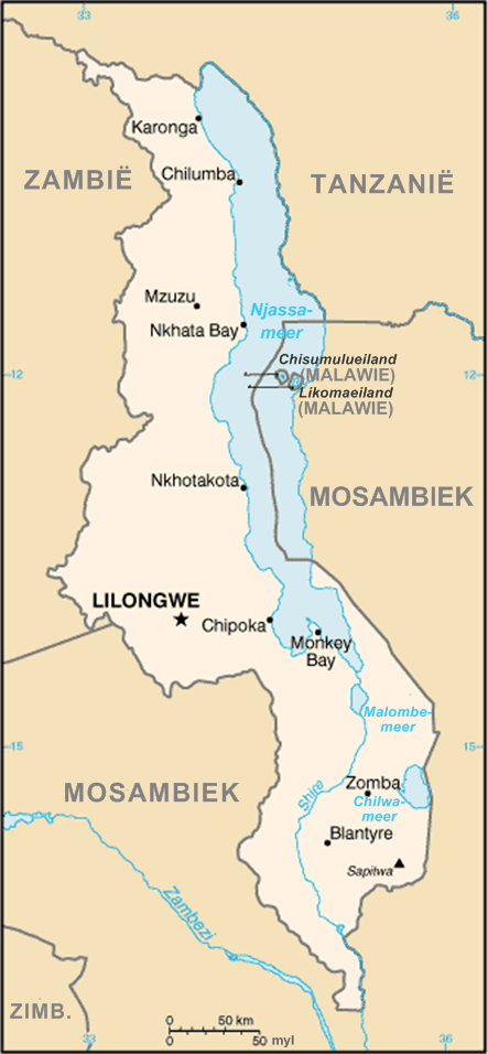 An Afrikaans map of Malawi.